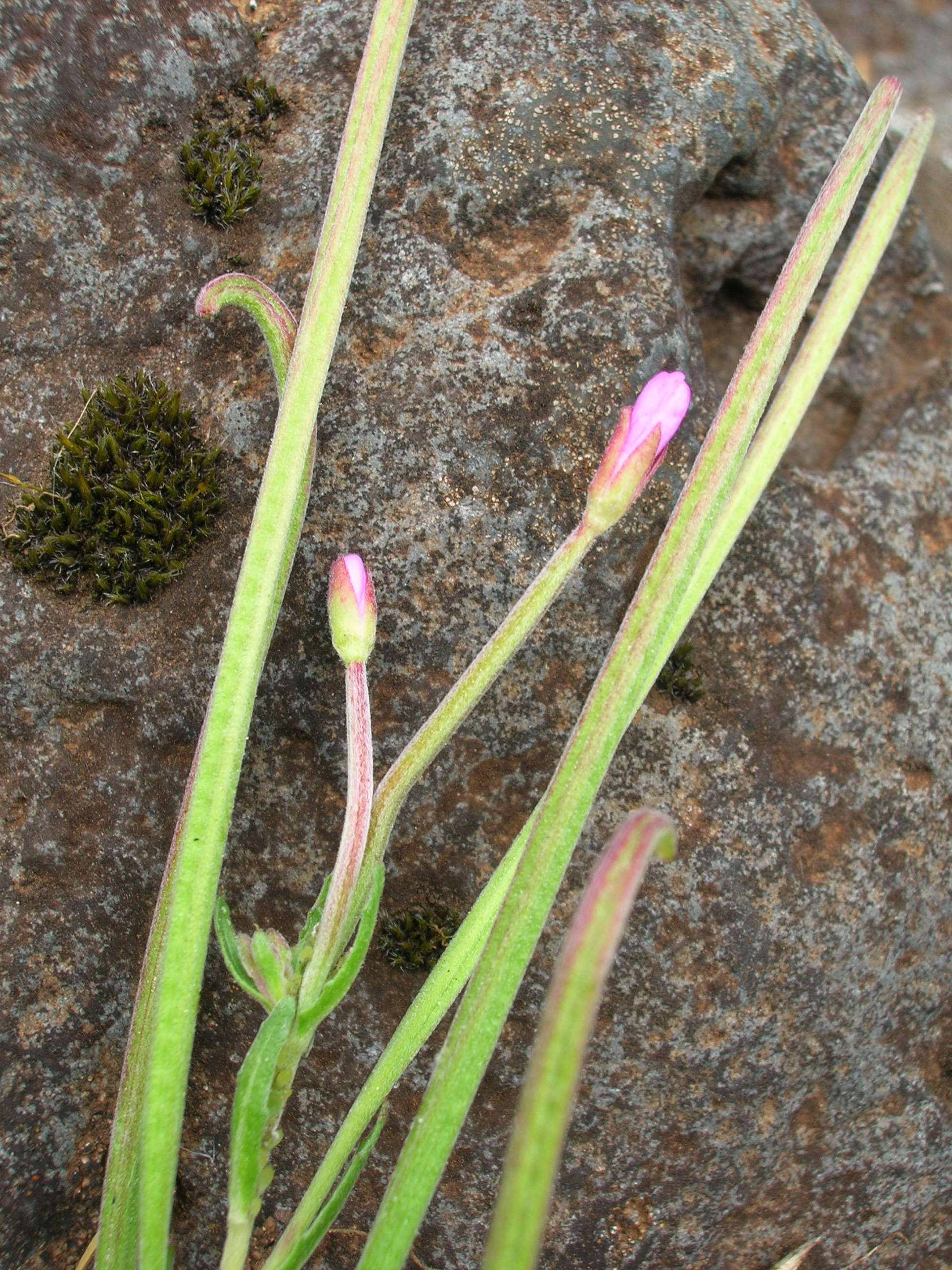 Epilobium billardierianum (flowers). Location: Maui, Waiale Gulch